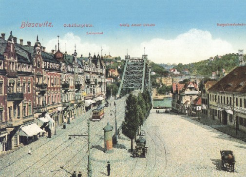 Blasewitz near Dresden, Germany, Schillerplatz about 1910, Photographer: unknown